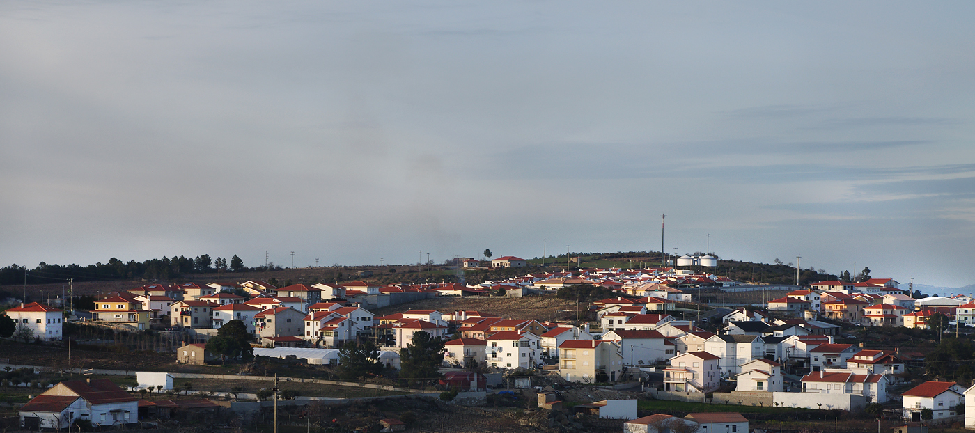 Vale do Pombo - Zona de Expansão Urbana a Noroeste